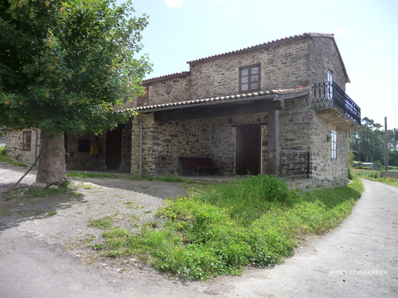 MUESO